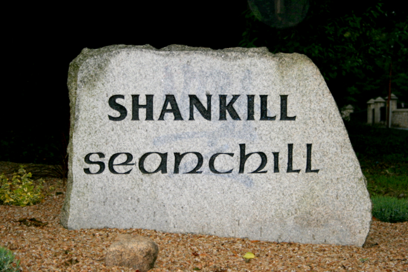 Shankill/Seanchill welcome boulder